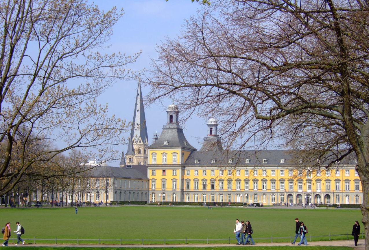 Hofgarten (Bonn) with Kurfürstliches Schloss (University of Bonn) and Bonn Minster.